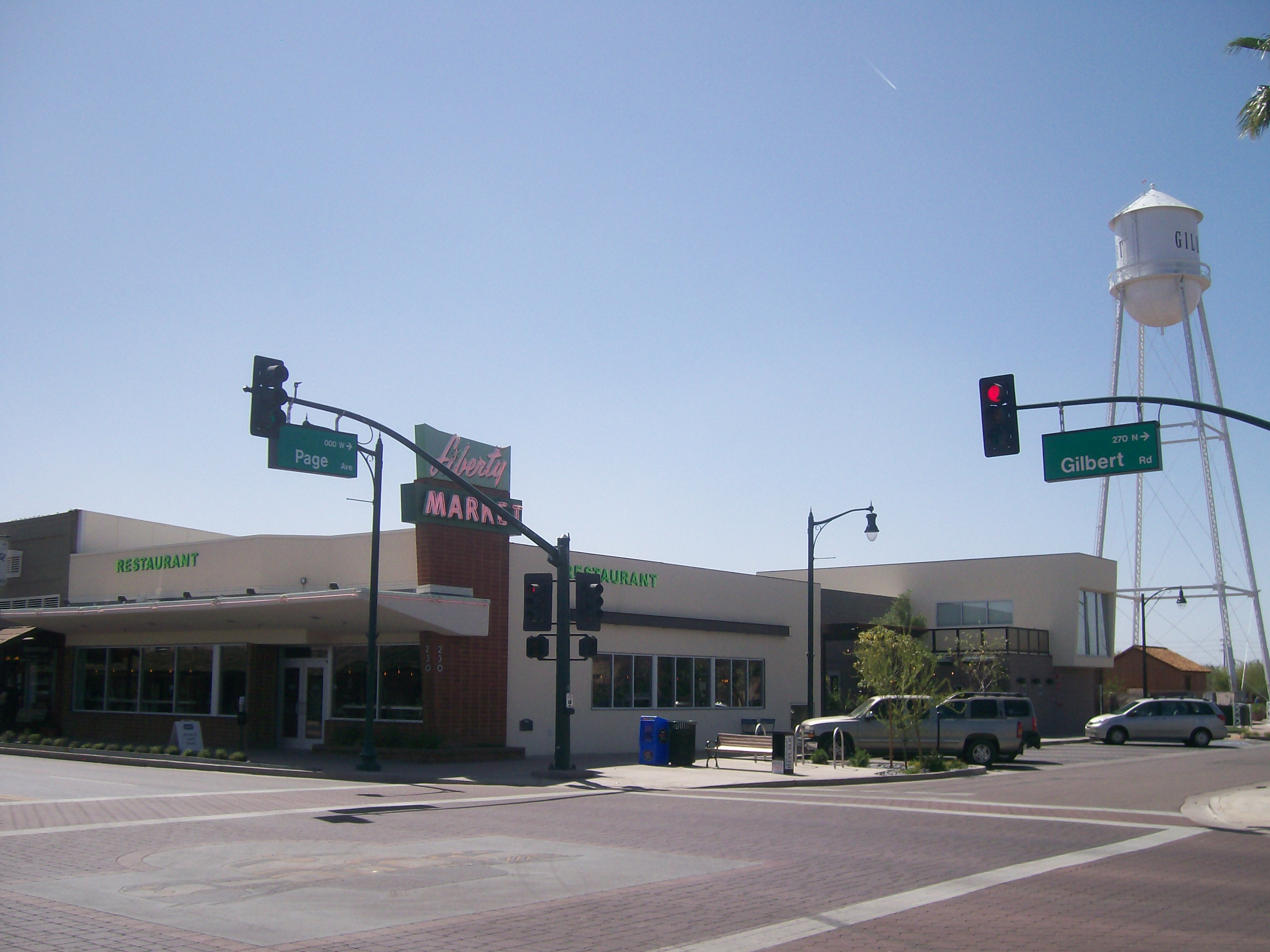 A view of the South West Corner of Gilbert Road and Page Avenue in Gilbert Arizona. In the background is the Liberty Market and the iconic Gilbert watertower.